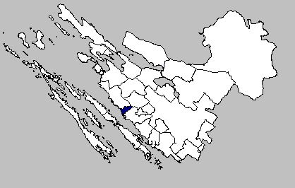 Self-made map of the Bibinje municipality within the Zadar County.